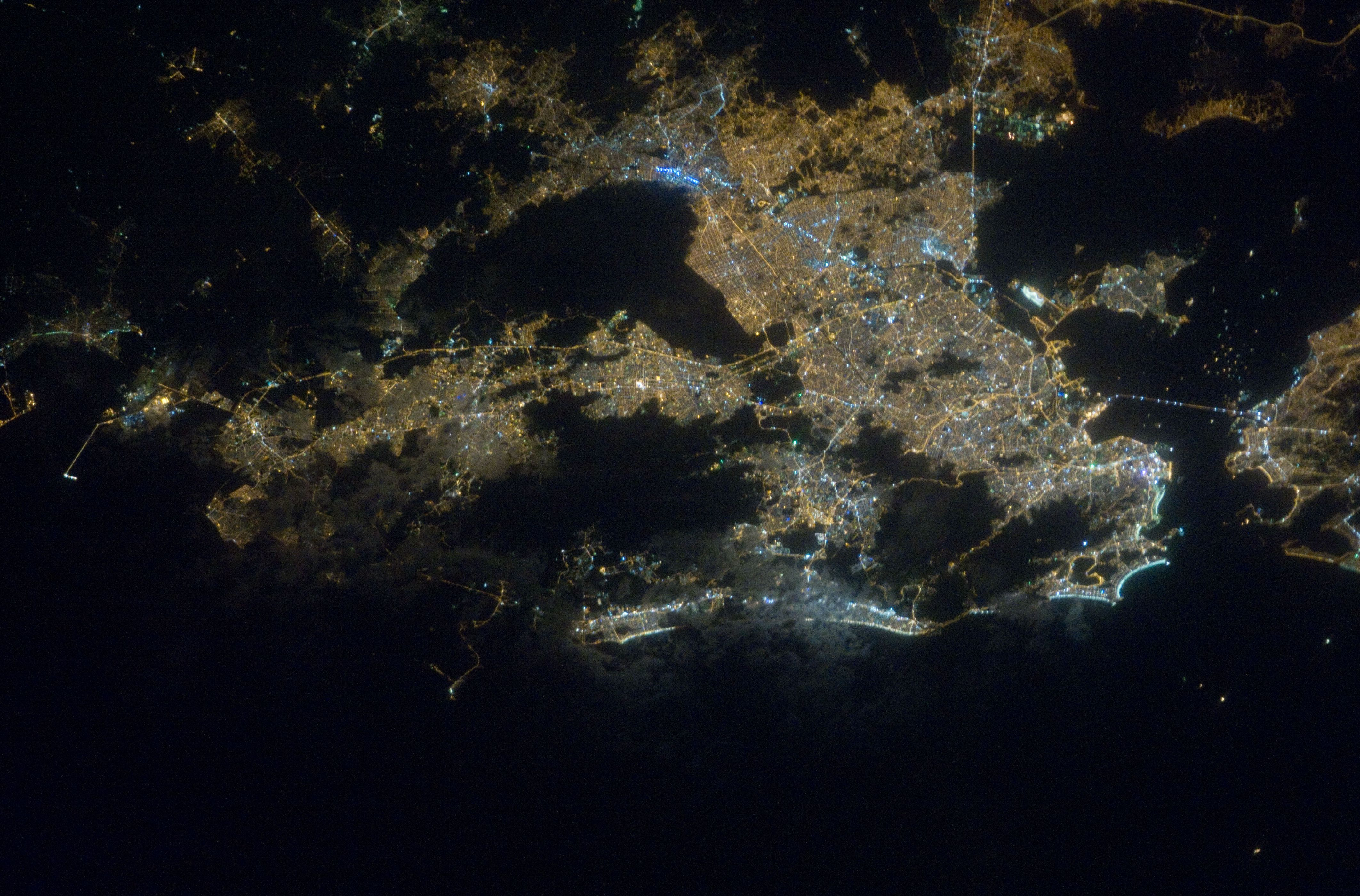 Rio de Janeiro, Brazil, from ISS.